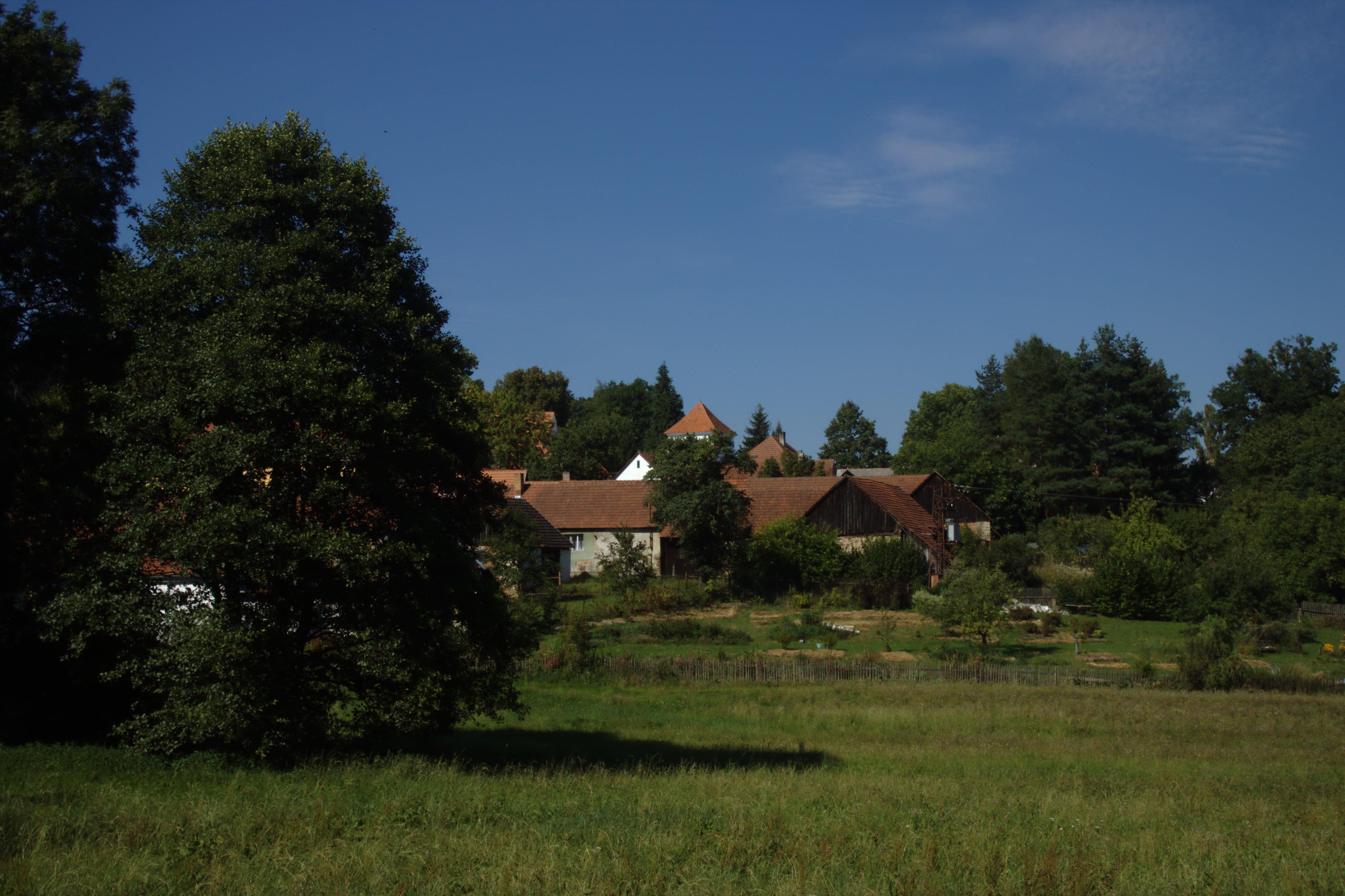 View of the village of Zhoř